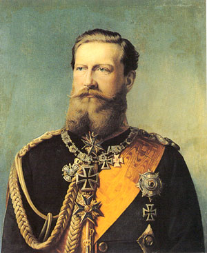 Portrait of Emperor Friedrich III wearing a General`s Uniform with Decorations